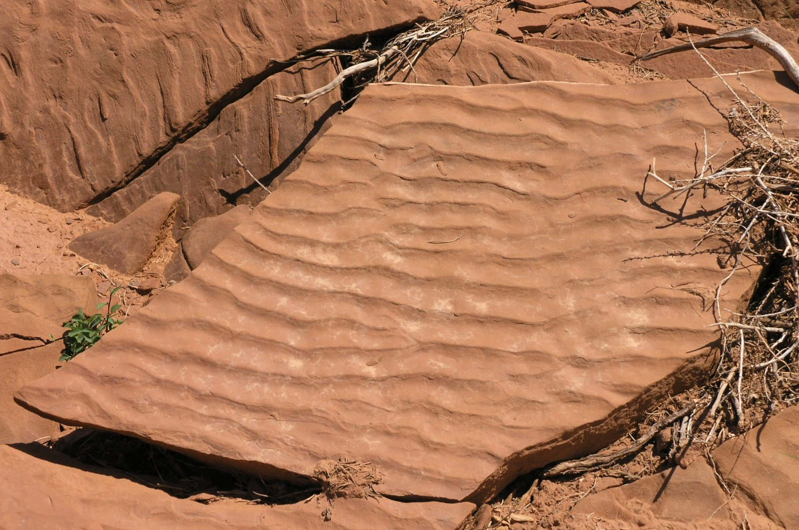 Photo taken by Daniel Mayer in late June 2005.